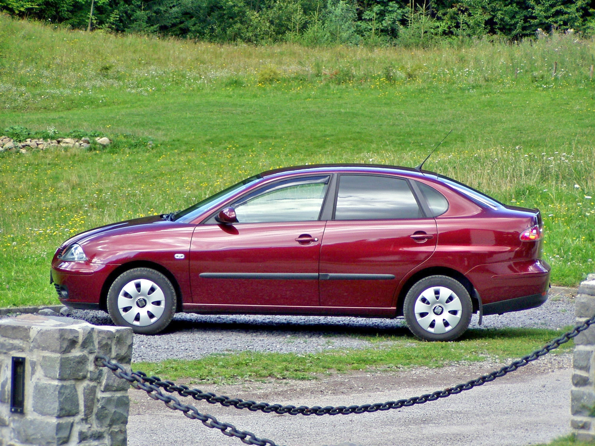 Seat Cordoba (model 2004) Side view.